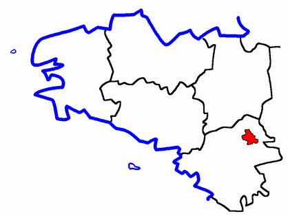 Description: Map for localisazion of cantons of Pays-de-Loire, region in France Source: made by Hervé Tigier in april 2005 from another large map (published in 1990)